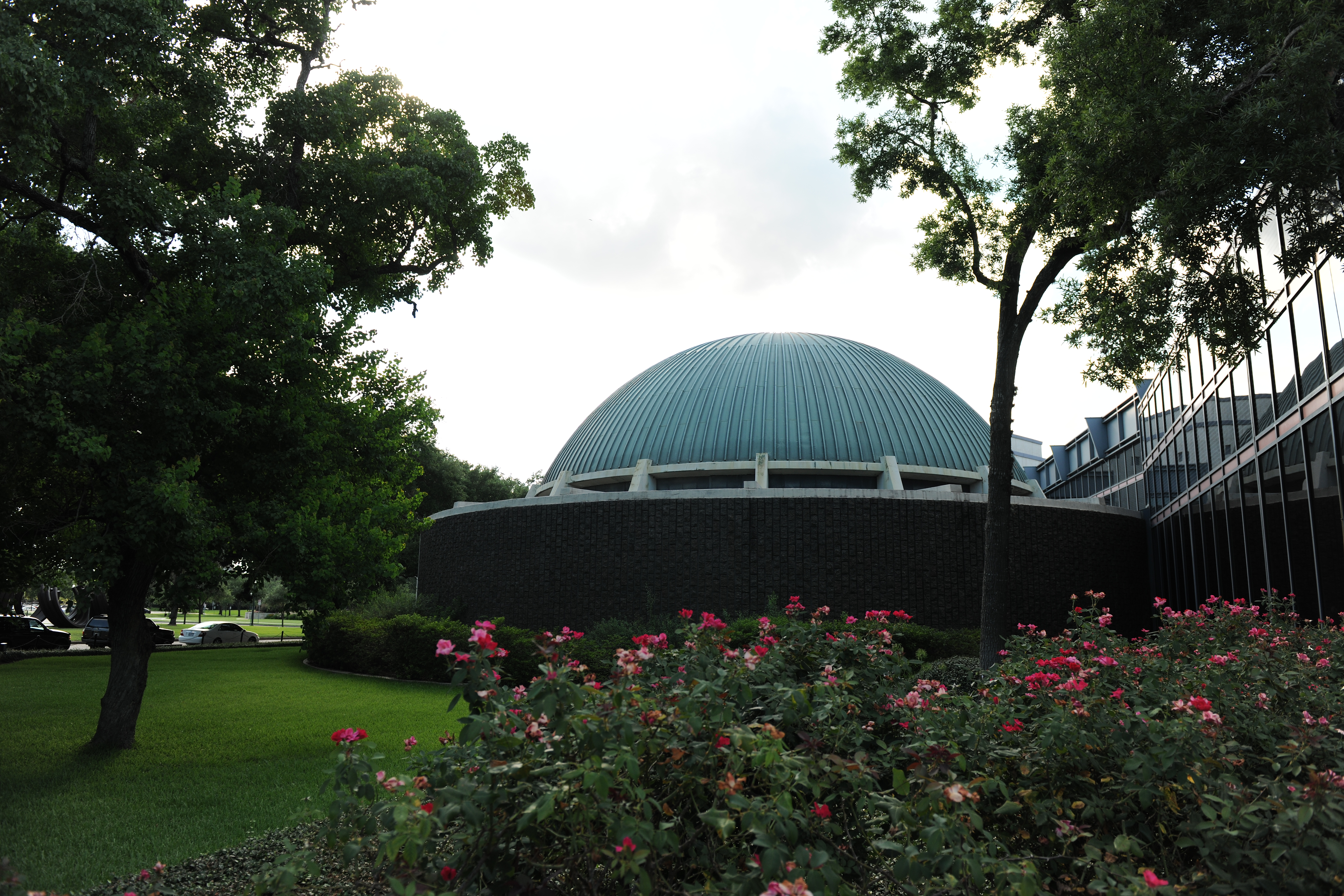 Exterior elevation of the Burke-Baker Planetarium, Houston (Texas, USA) Museum of Natural Science.